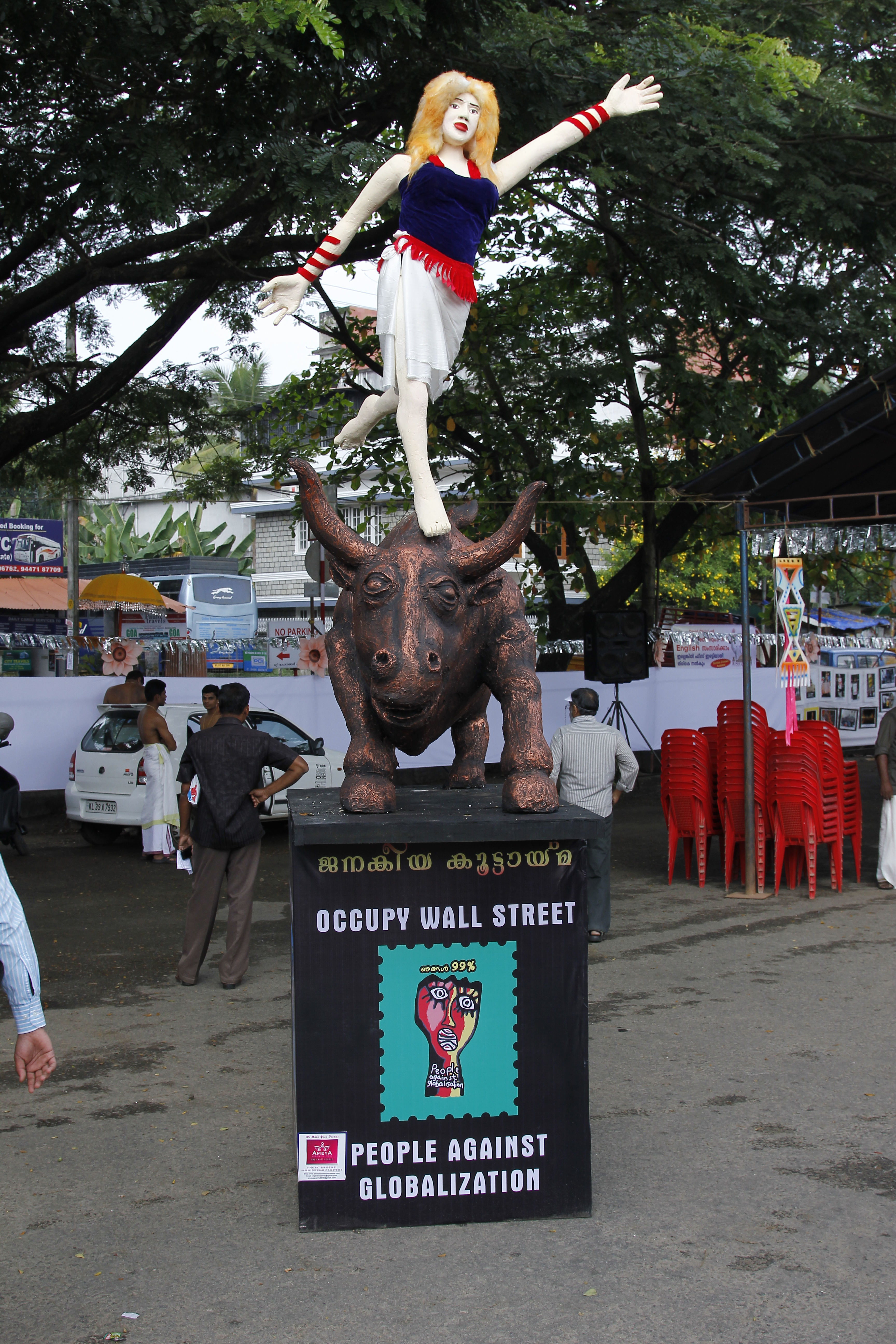 statue in ws